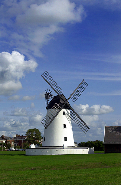 Photograph taken by Simon Povey, September 2006...